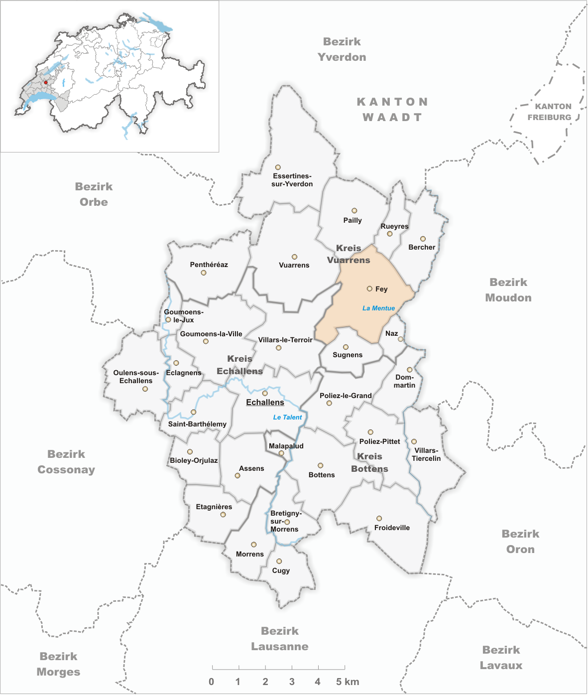 Municipality Fey